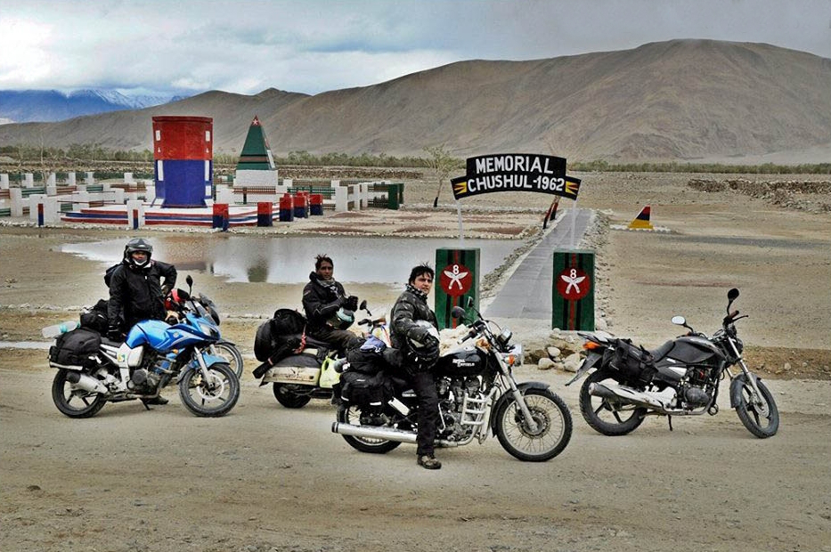 This war memorial is located few kilometers ahead of Chushul village